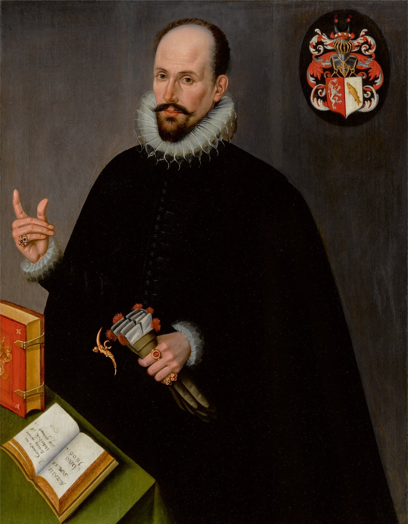 Portrait of Ott van Bronckhorst by Cornelia toe Boecop, oil on panel, 37 7/8 x 30 1/4 inches, Rijksmuseum